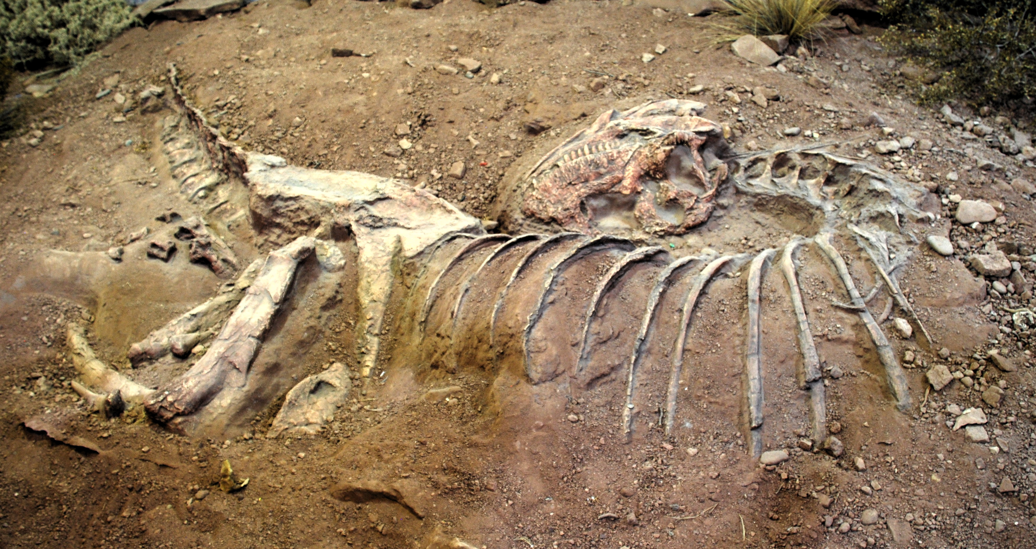 The Natural Science Museum at El Chocón, in the northwestern Argentine Patagonia (the Comahue region). Fossil of dinosaur